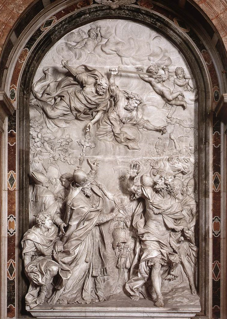 The Meeting of Leo I and Attila, Marble, height: 750 cm Basilica di San Pietro, Vatican